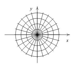 Família de círculos com centro na origem e trajetórias ortogonais.